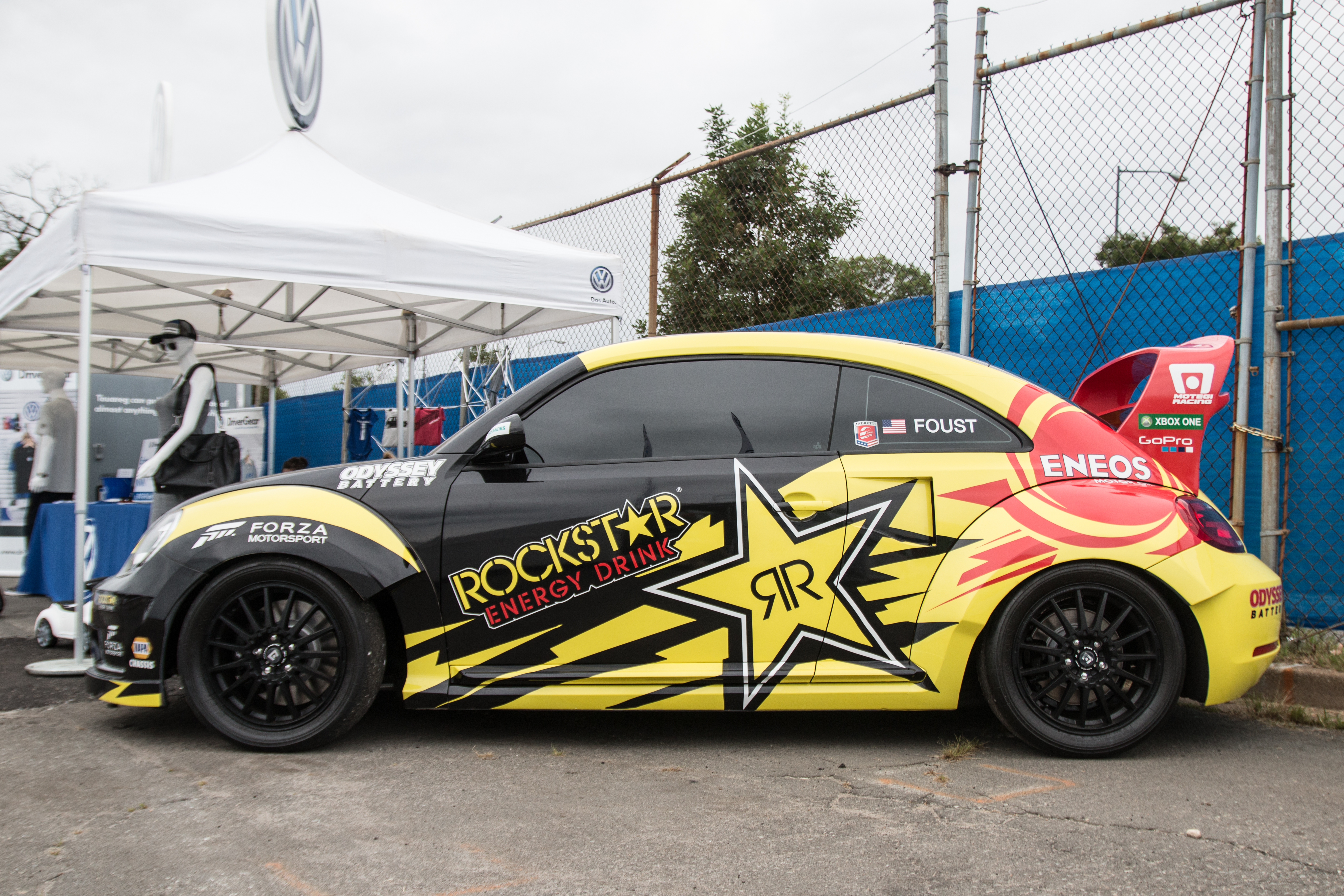 Tanner Foust's VW Beetle rallycross SuperCar. RedBull Global RallyCross in Washington D.C.